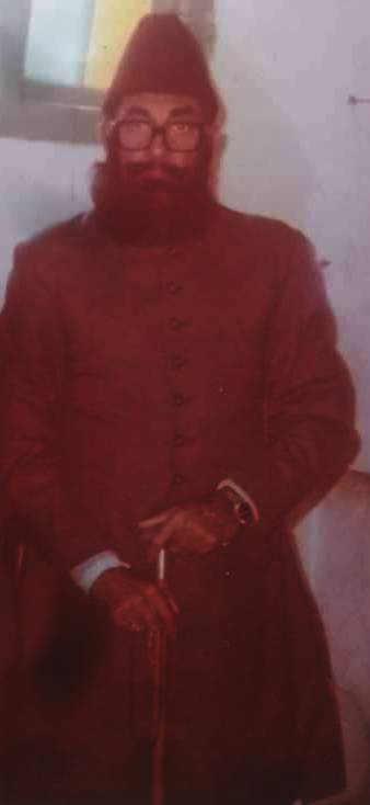 Depicted person: Syed Faiz-ul Hassan Shah – Pakistani Islamic scholar